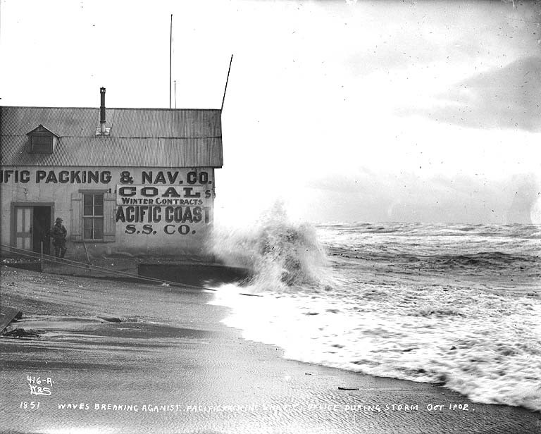 Caption on image: "Waves breaking against Pacific Packing & Nav. Co. office during storm of 1902." Original photograph by Eric A. Hegg 1851; copied by Webster and Stevens 416.A Subjects (LCTGM): Offices--Alaska--Nome; Beaches--Alaska--Nome; Waves--Alaska--Nome; Storms--Alaska--Nome Subjects (LCSH): Pacific Packing & Navigation Company (Nome, Alaska)